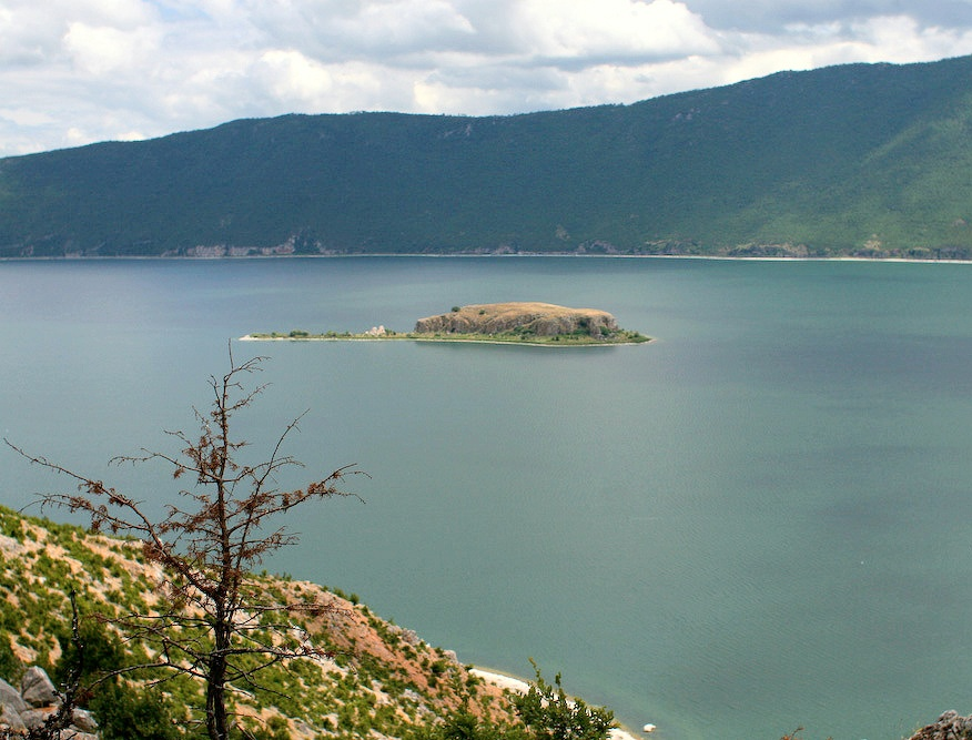 Lake Prespa and the Mal Grad Island